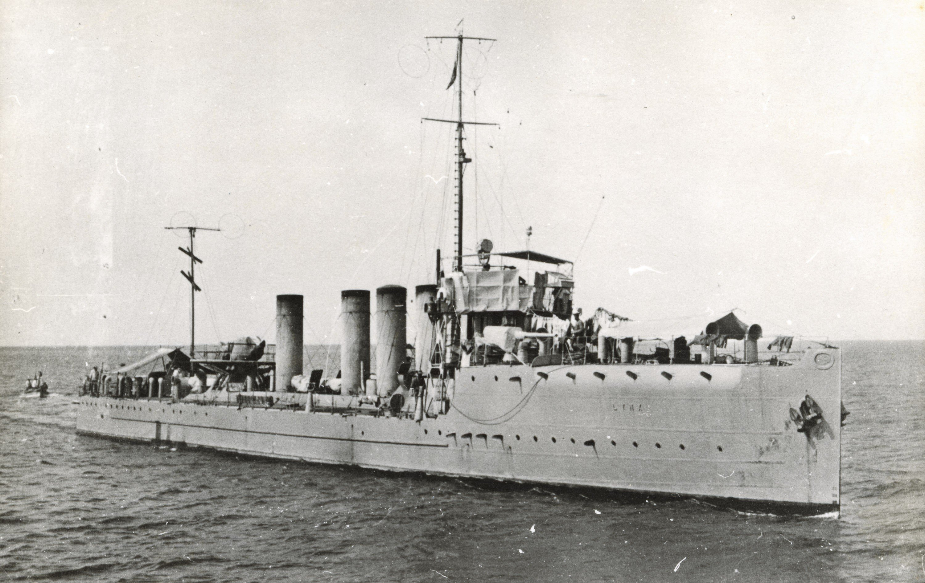 destroyer Hr.Ms. Lynx (1913-1928)